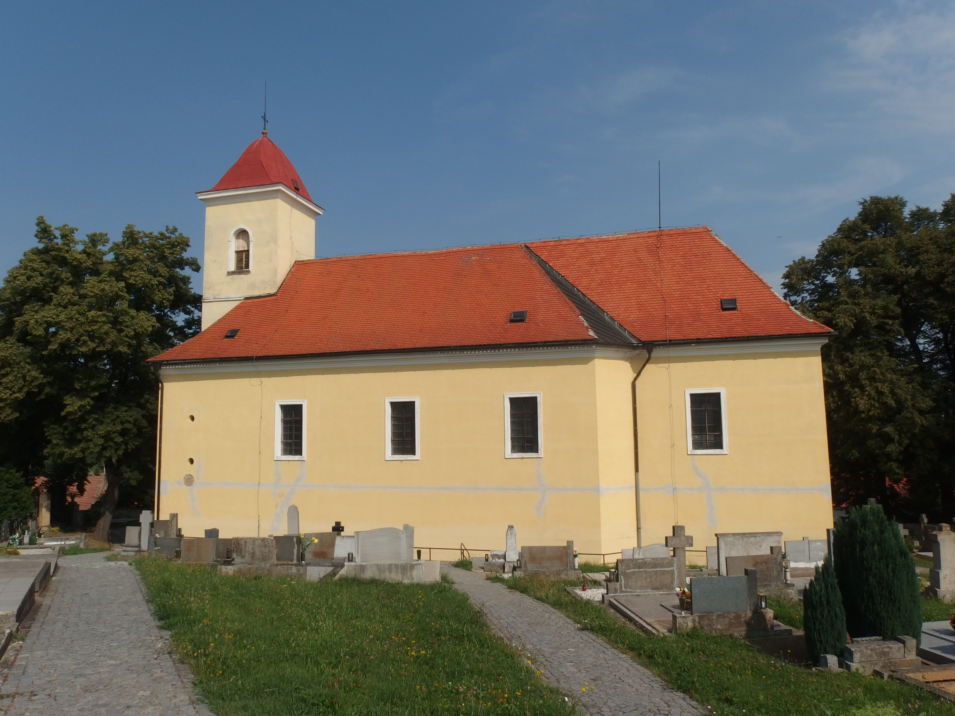 Kroměříž, Czech Republic, part Zlámanka.